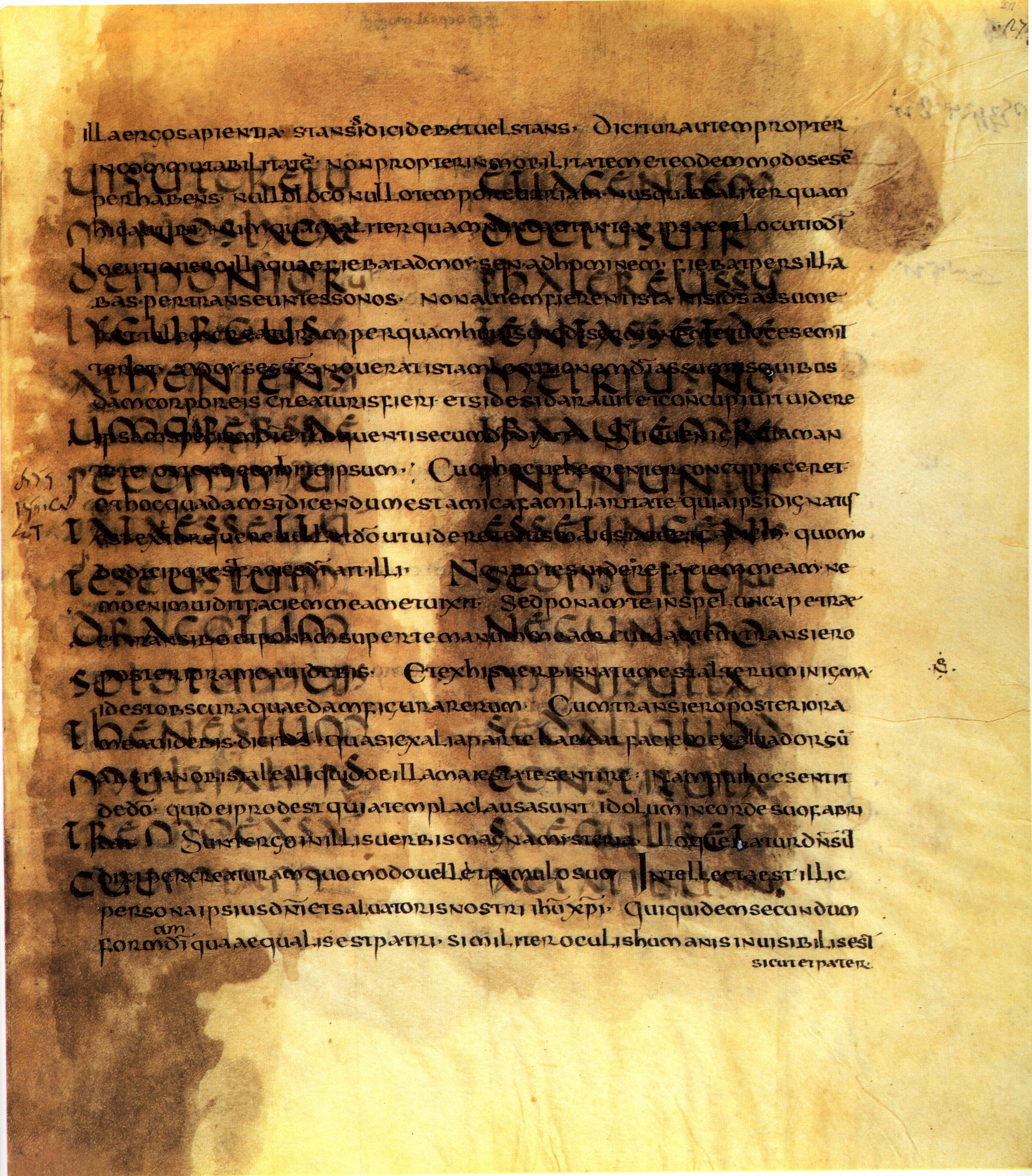 Cicero, De re publica, fragment (palimpsest). Biblioteca Apostolica Vaticana, Ms. Vat. Lat. 5757, fol. 277r.